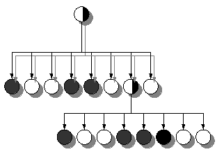 Octree